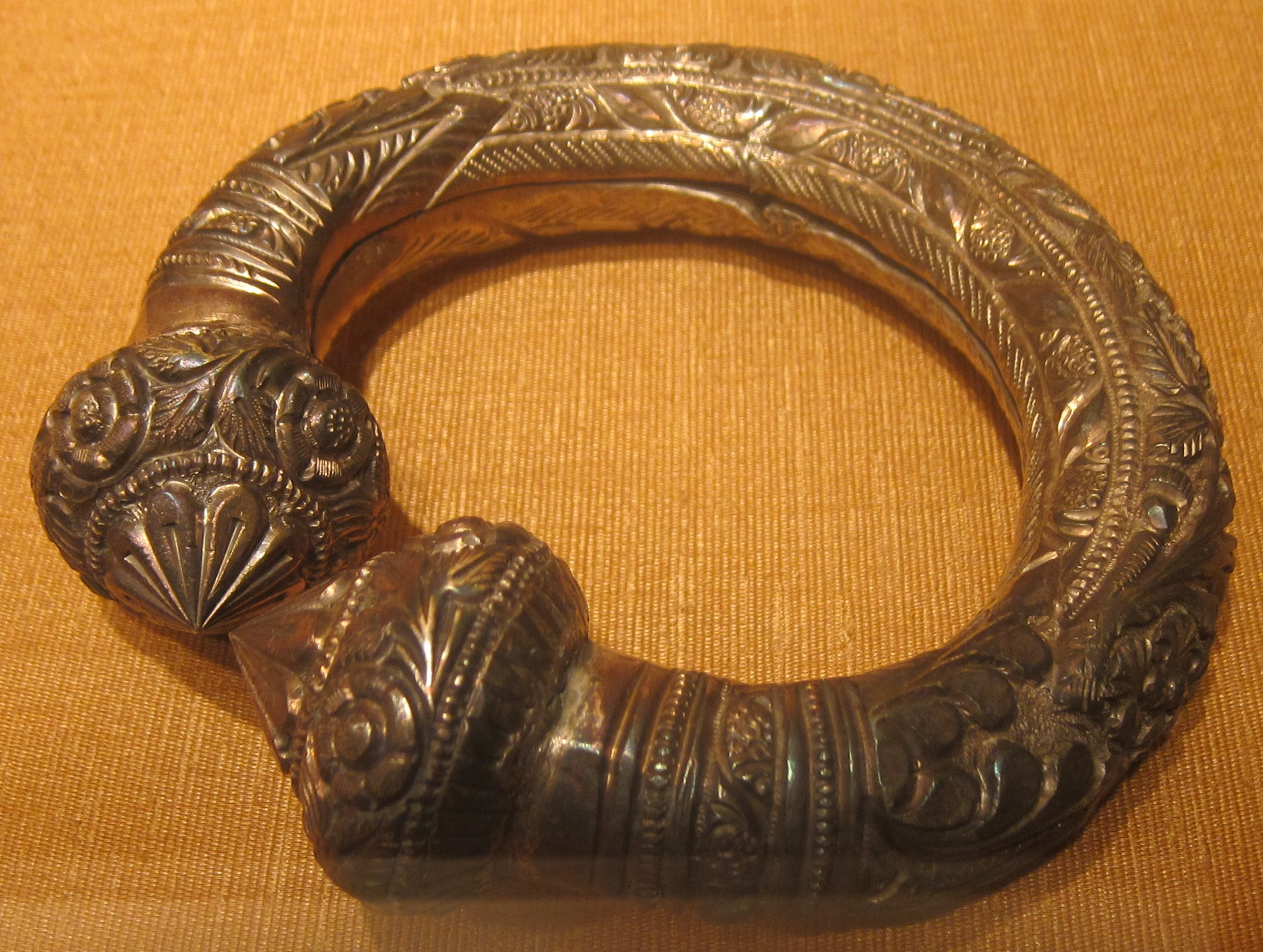 Anklet from India, 19th century, silver with gold wash, Honolulu Academy of Arts